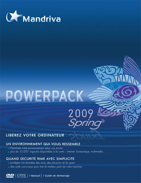 MandrivaLinuxPowerpack2009.1.jpgMandrivaLinuxPowerpack2009.1.jpg